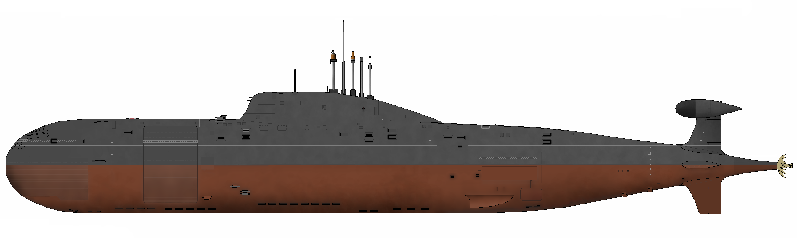 Drawing of the 971-U subtype of the russian Akula class submarines (Boats K-152, K-157).